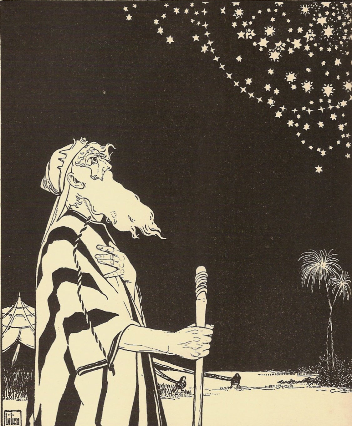 Abraham contemplates the Stars